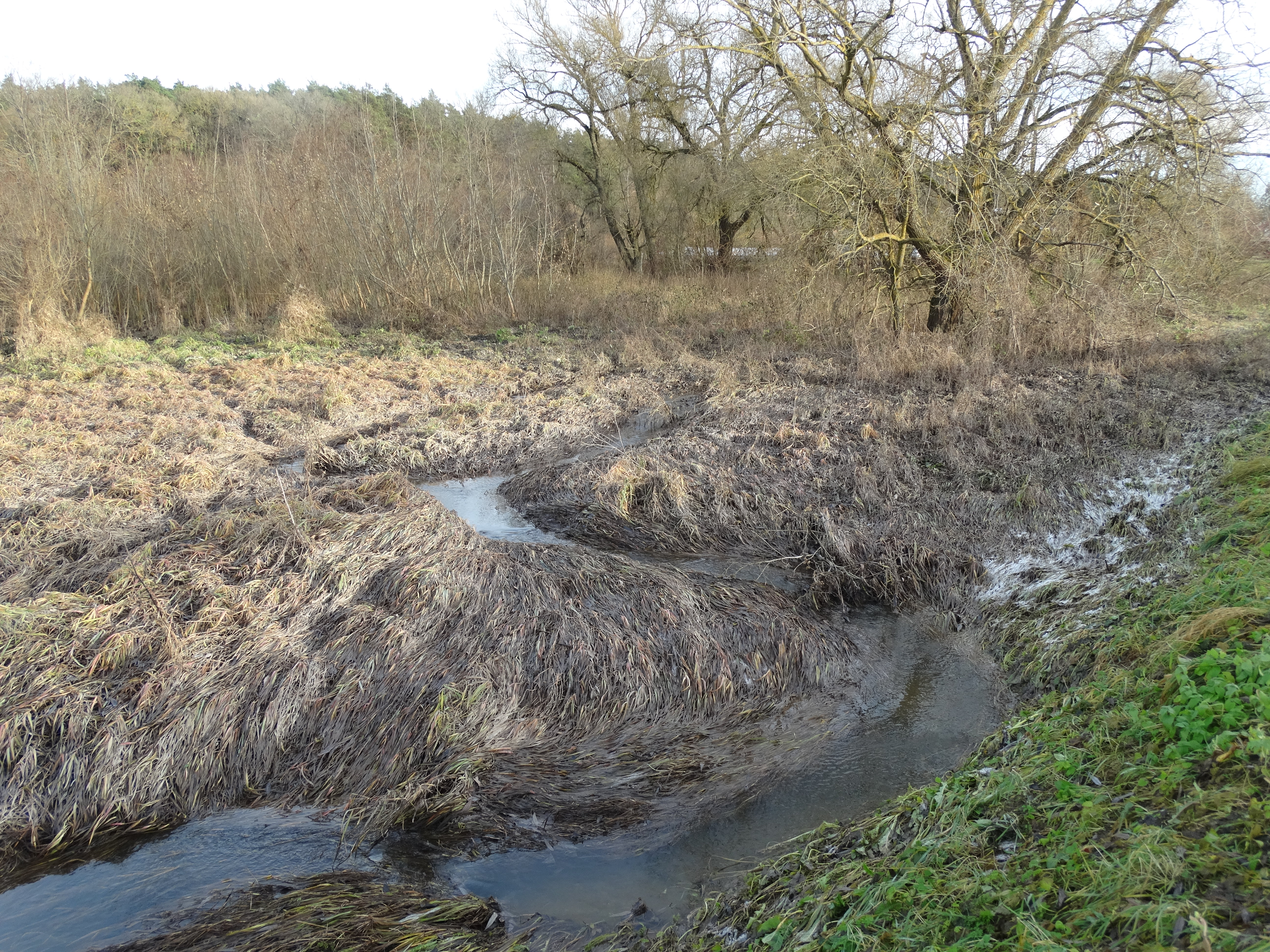 Naudupis stream, Skrebenai, Kaunas district, Lithuania